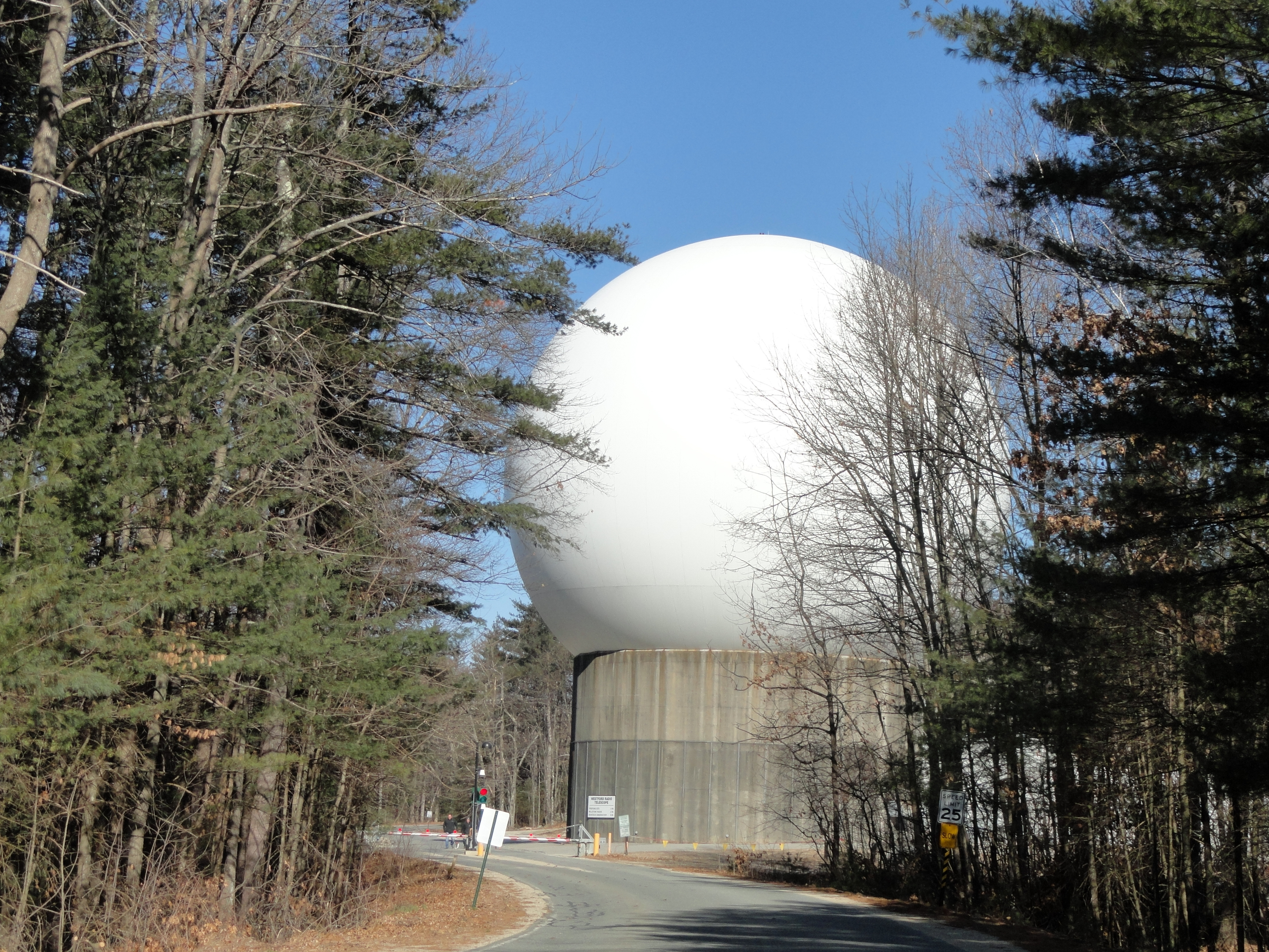 MIT Haystack Observatory, Westford, Massachusetts, USA.